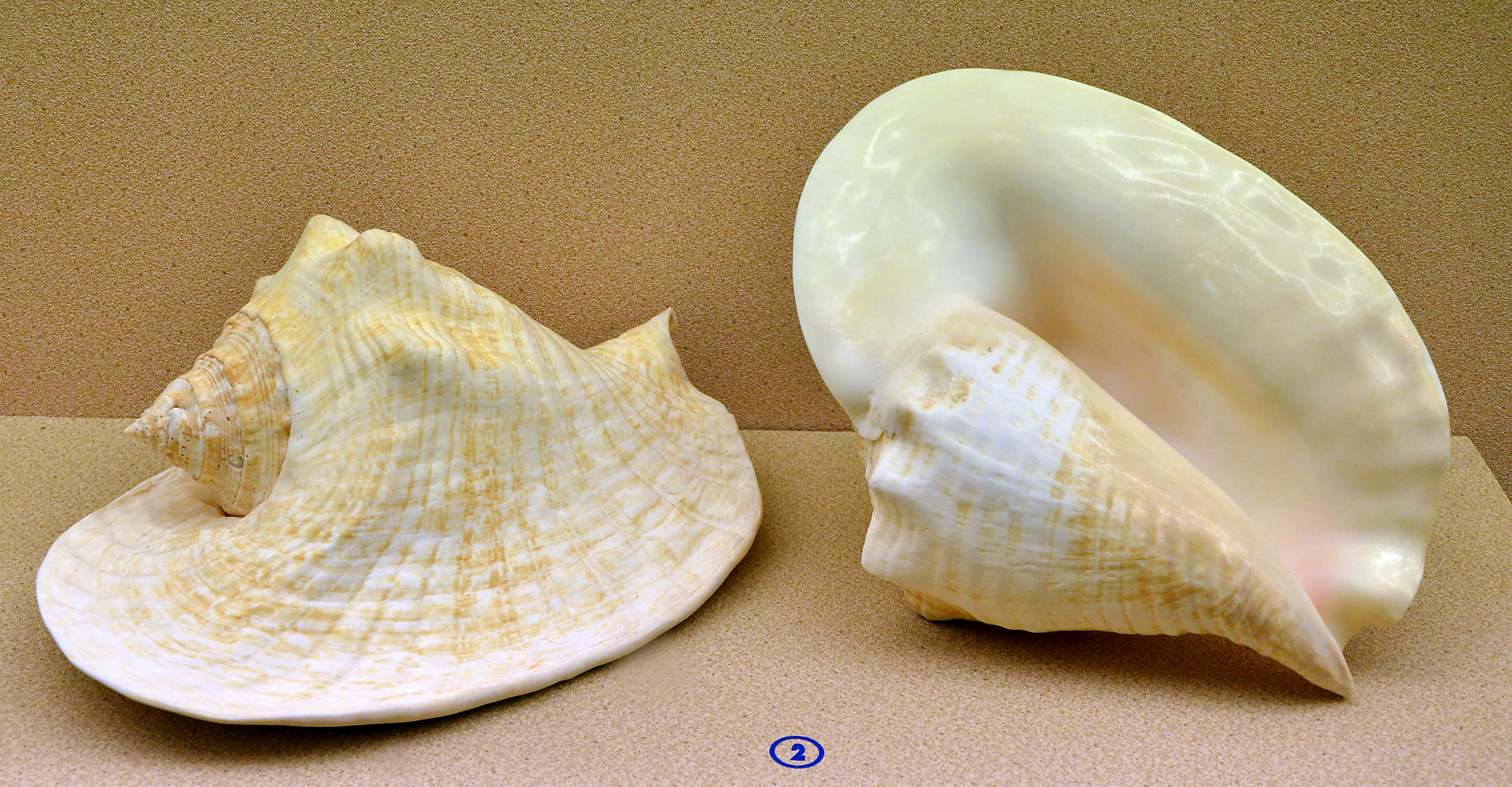 Photographed in the Sea Shell Museum Phuket Lobatus goliath